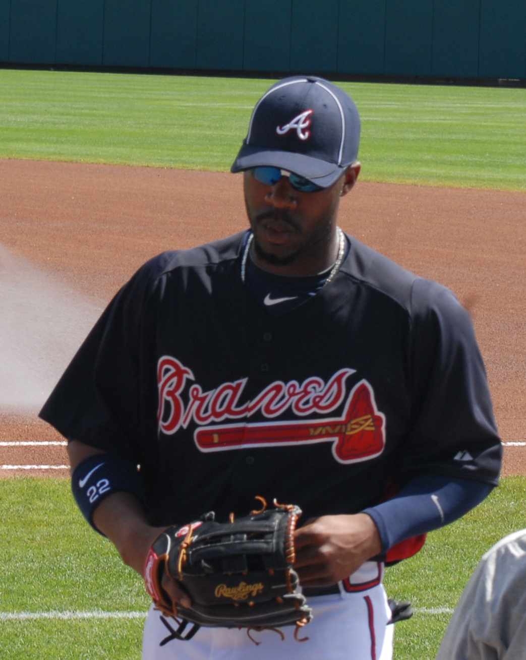 Jason Heyward entering the dugout before a spring training game against the Houston Astors on February 28, 2011 at Disney's Wide World of Sports.